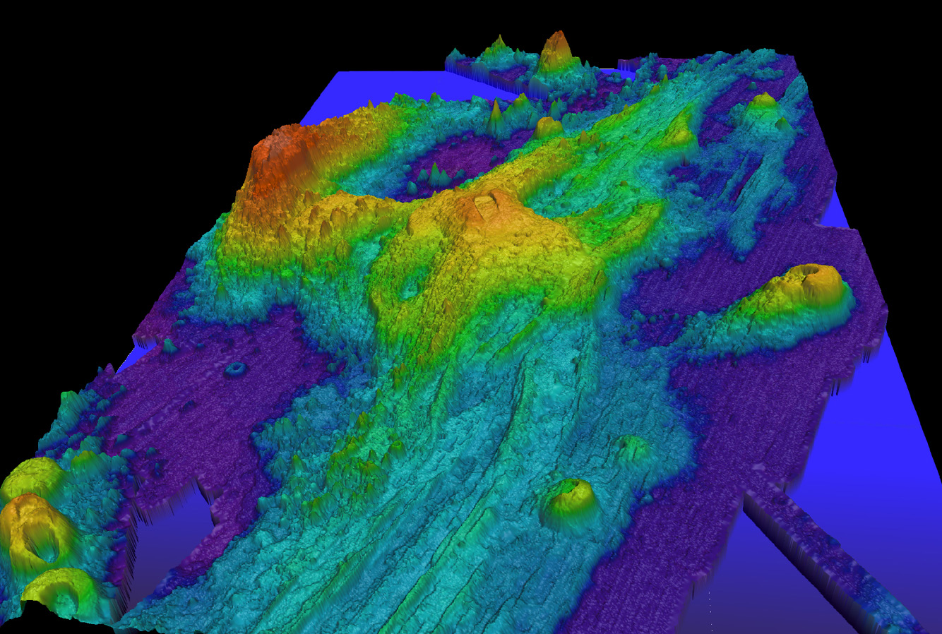 Exaggerated swatch bathymetry of Axial Seamount.